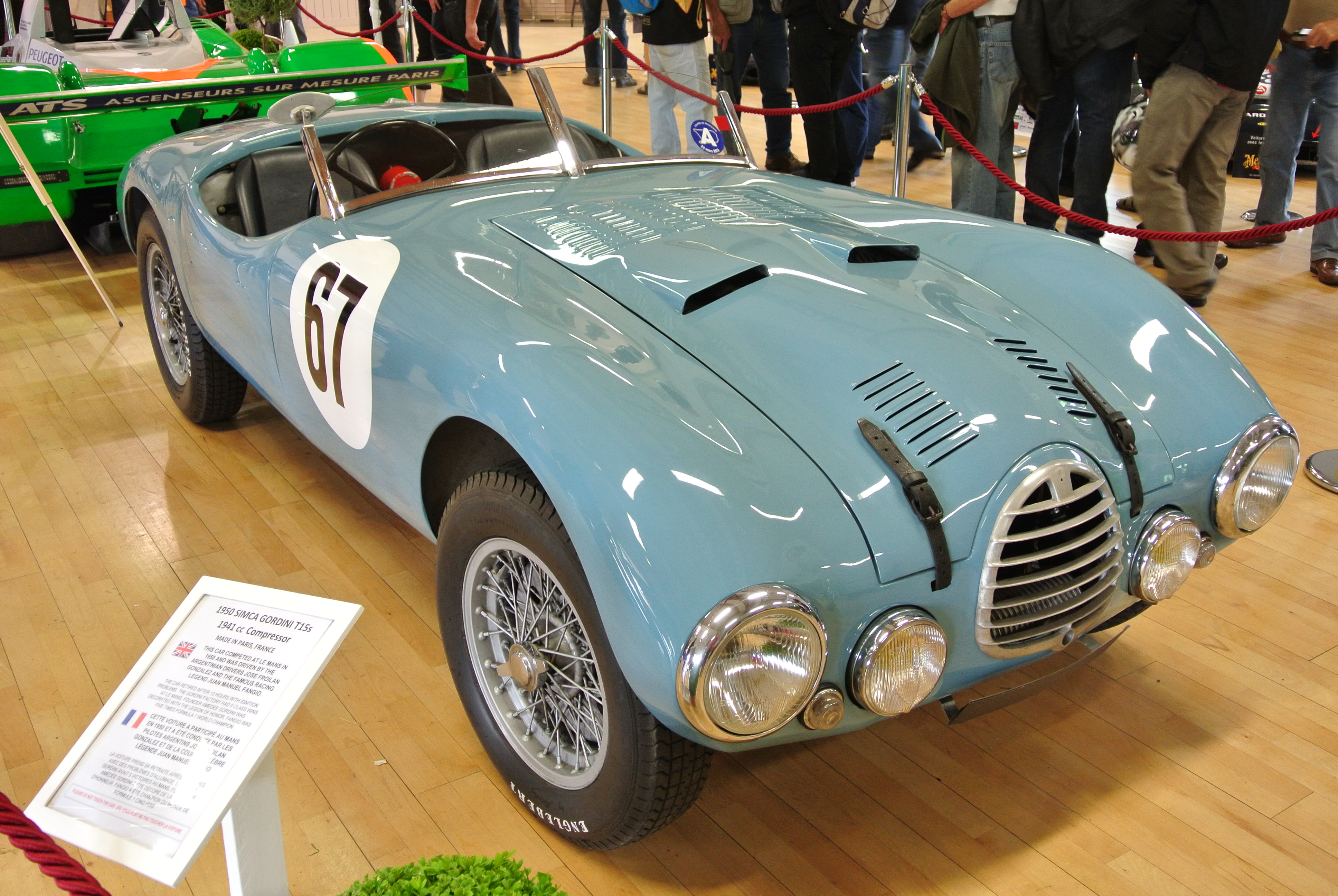 1950 Simca Gordini T15s 1941cc Compressor